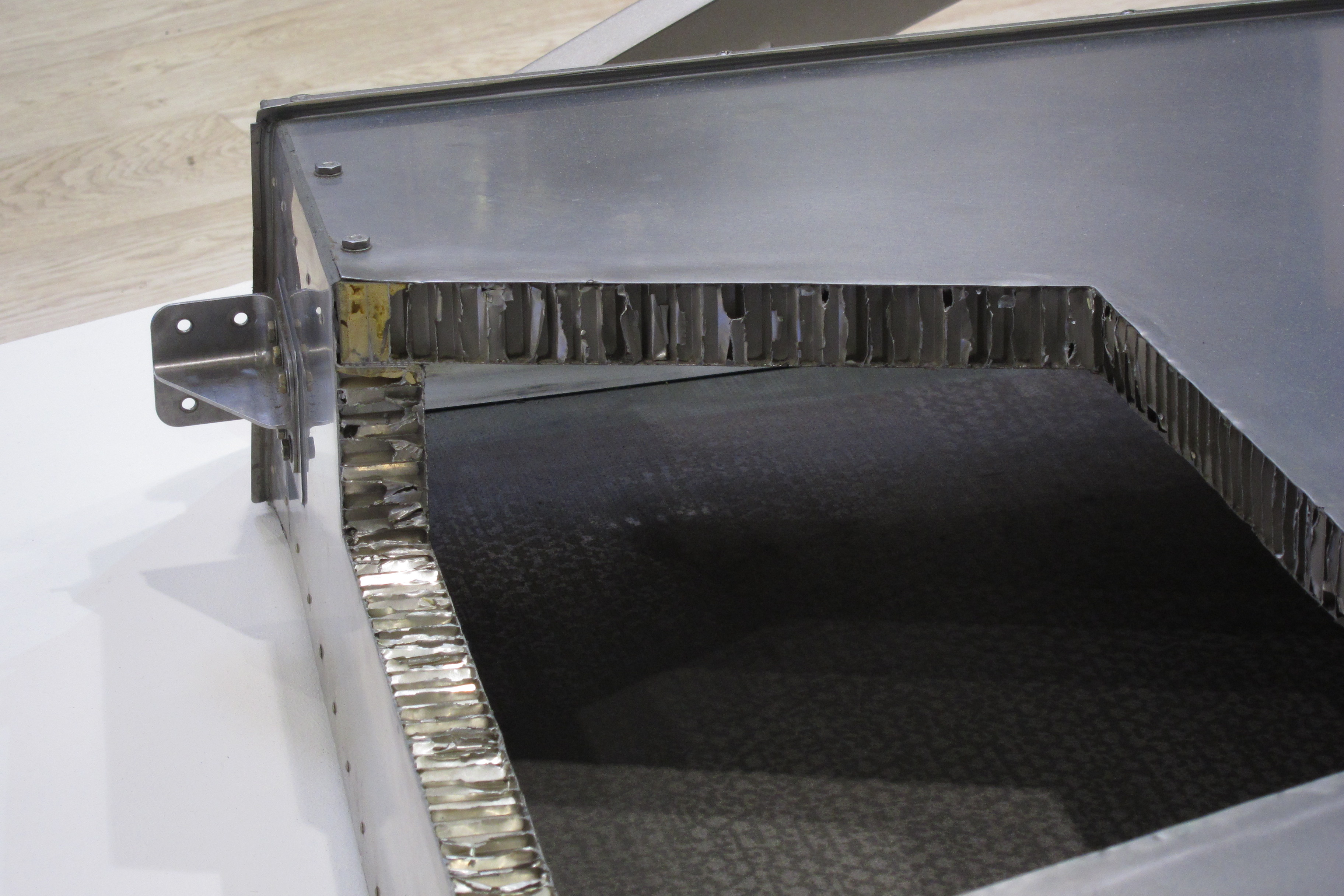 Close-up view of a sectioned exhaust duct displayed at the Paris Air Show 2013